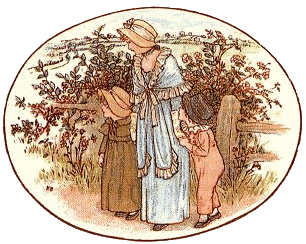 Illustration from The Language of Flowers (1885) by Kate Greenaway.